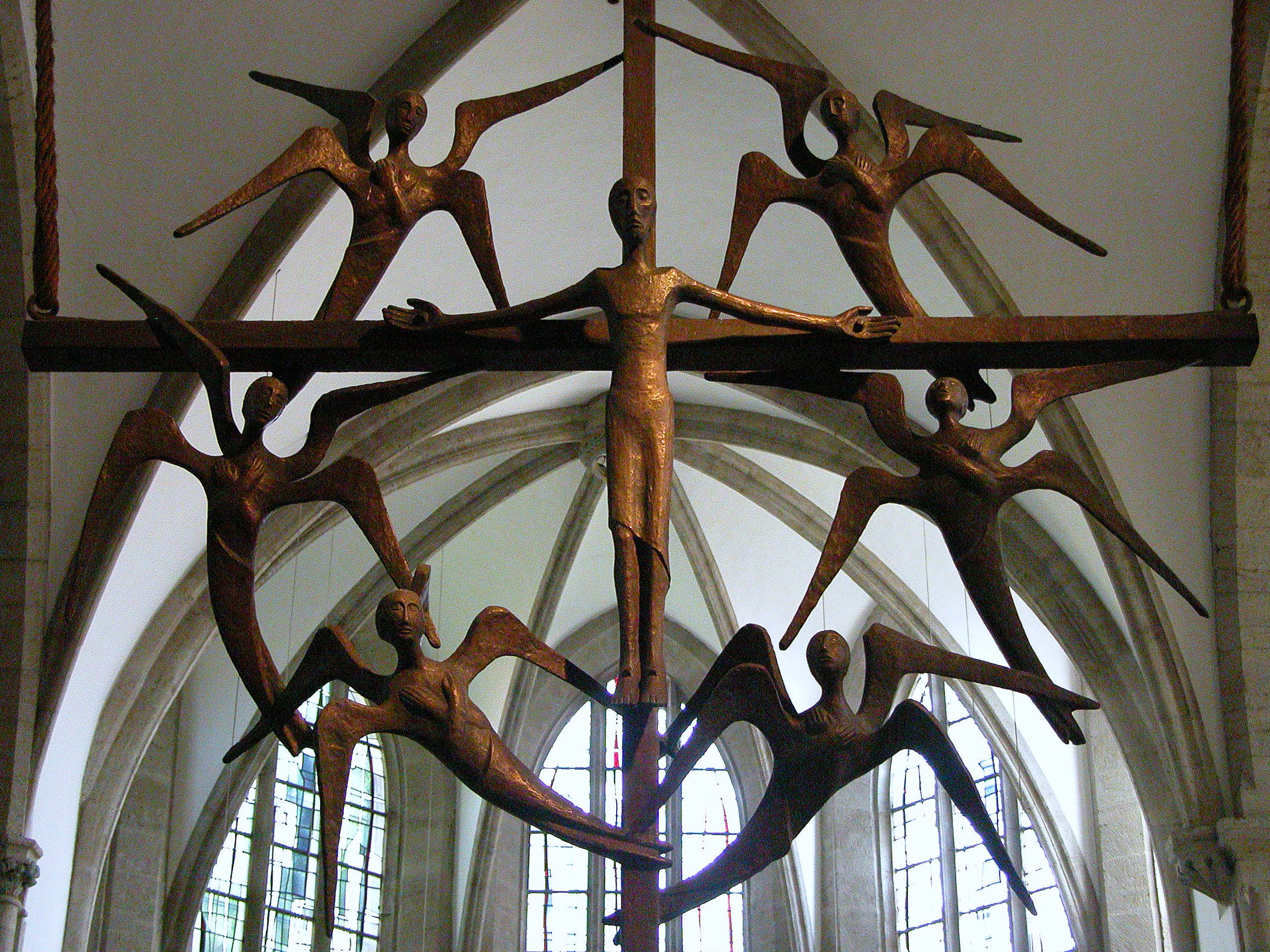 Braunschweig, Germany: St. Magnus’ Church: cross.